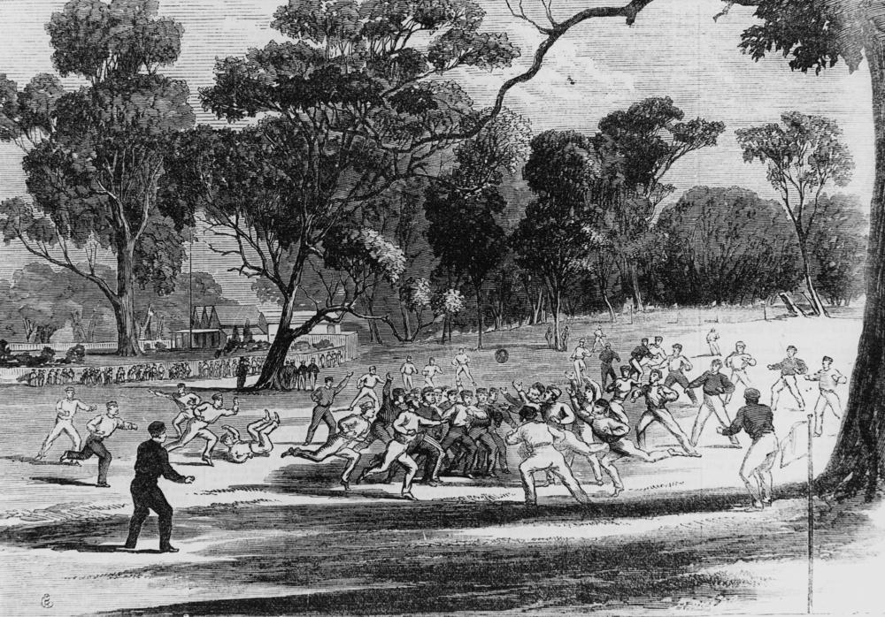 Wood engraving of an Australian rules football match at the Richmond Paddock, Melbourne, in about 1866. The building in the background is the Melbourne Cricket Ground pavilion.